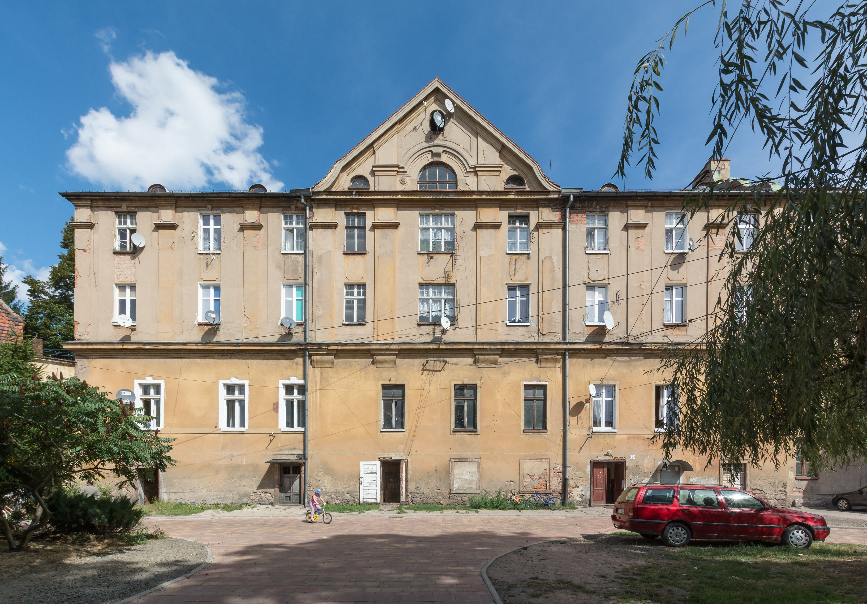 Jesuit parsonage palace complex, palace